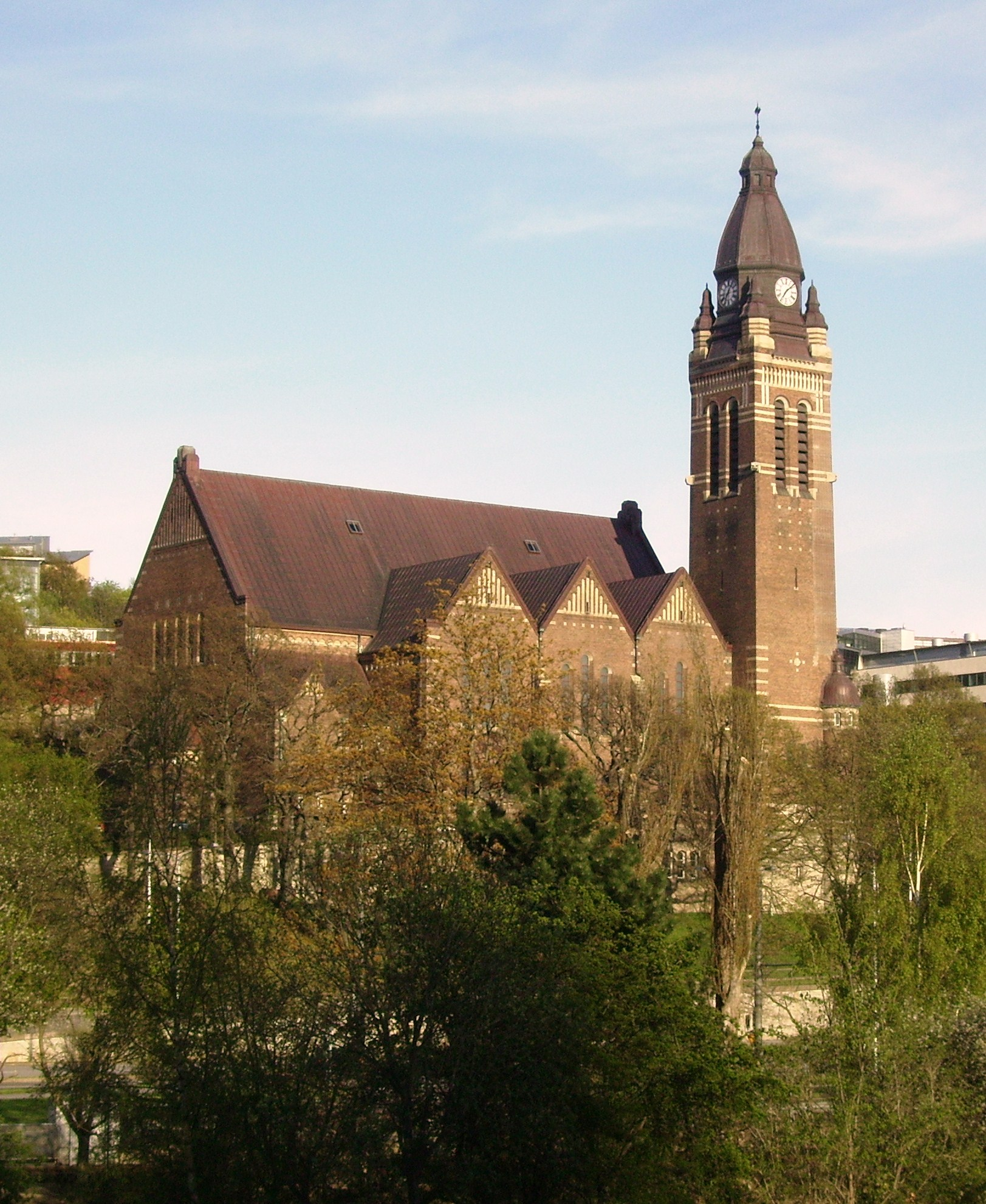 Picture of Annedalskyrkan in Göteborg